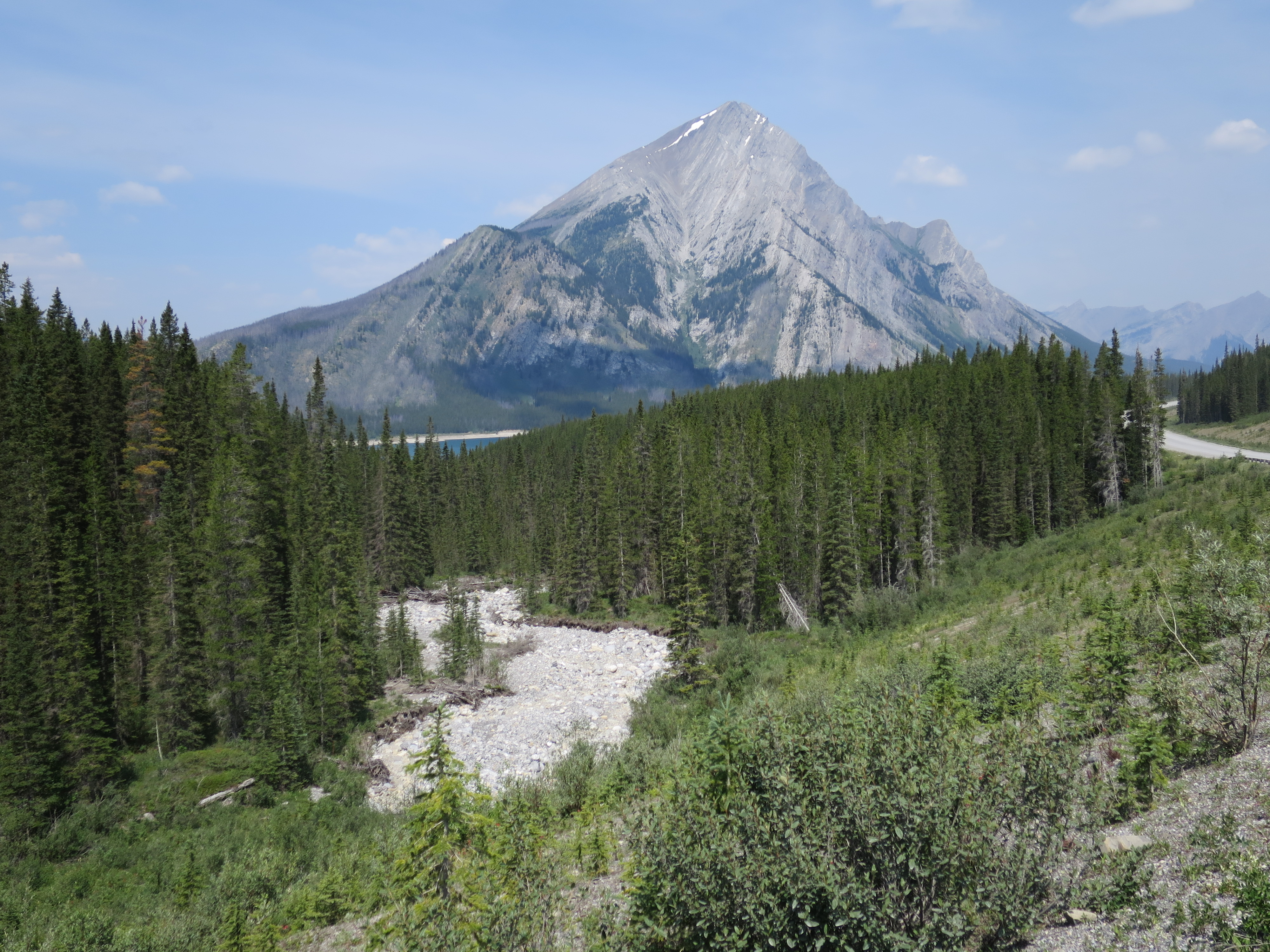 Mount Nestor (2975m, Goat Range) from Buller Creek (ca. 1750m), Smith-Dorrien Trail (Alberta Highway 742, Canada), Spray Valley Provincial Park, looking NNW across the Spray Lakes Reservoir.